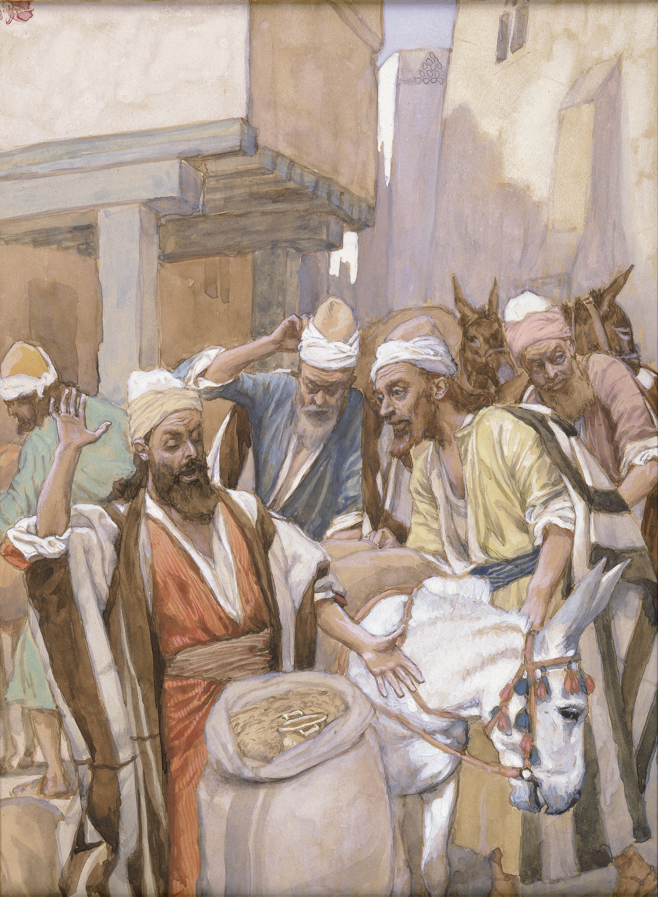 The Cup Found, c. 1896-1902, by James Jacques Joseph Tissot (French, 1836-1902), gouache on board, 9 x 6 11/16 in. (23.1 x 17 cm), at the Jewish Museum, New York